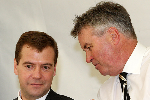 MAIENDORF CASTLE, MOSCOW REGION. At a meeting with the Russian national football team. With the Russian national football team trainer Gus Hiddink.